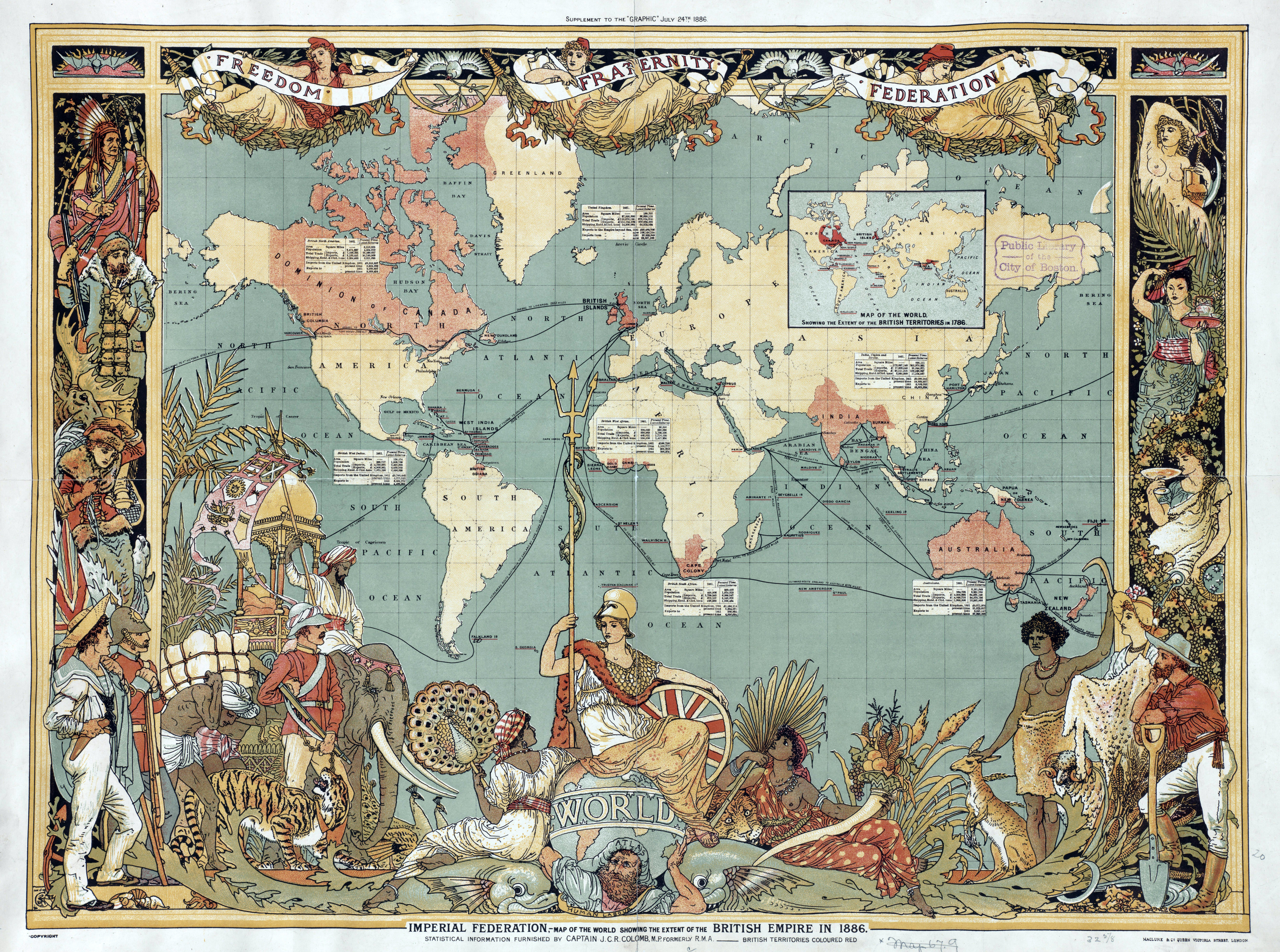 A map of the world in 1886: areas under British control are highlighted in red.